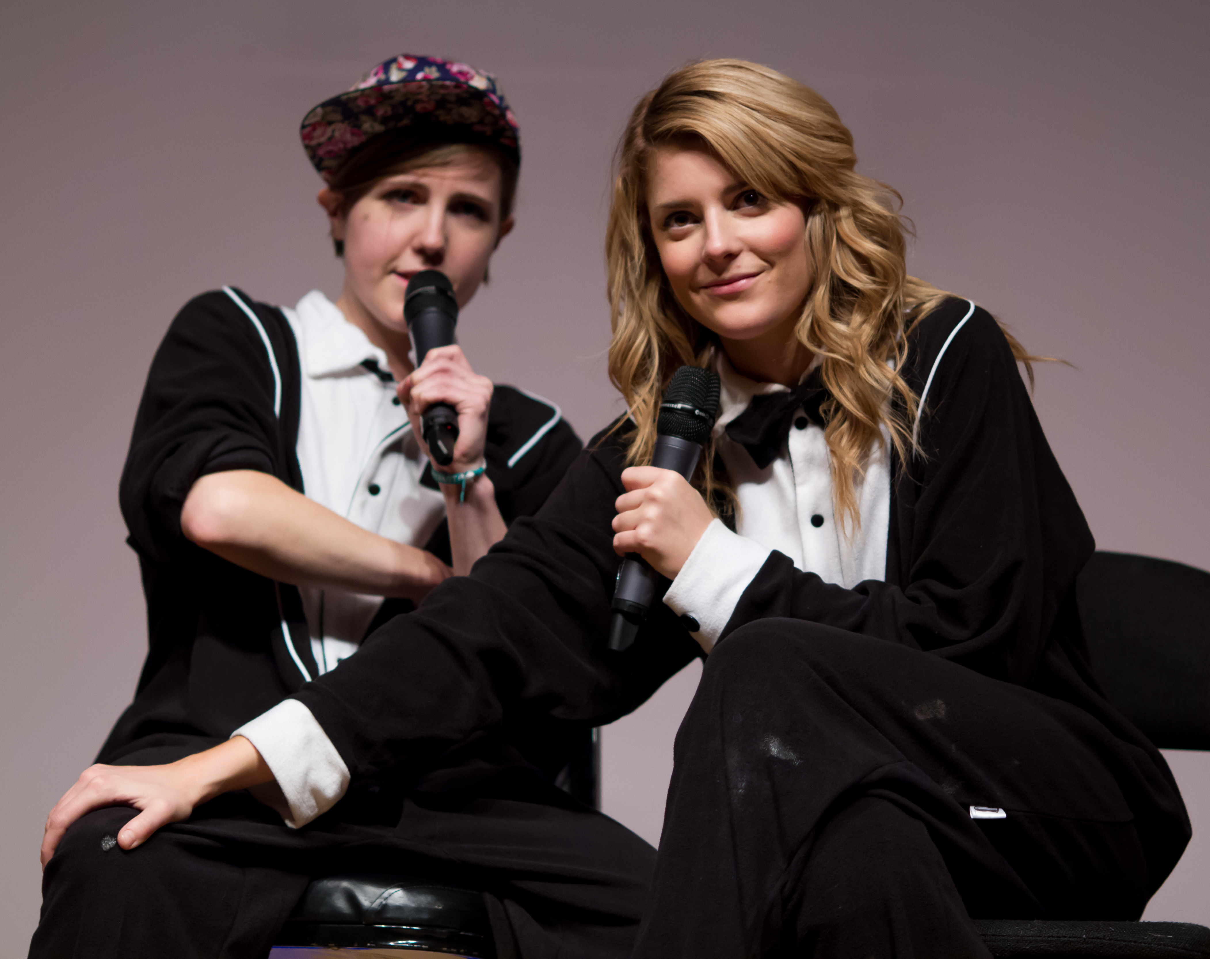 Hannah and Grace reenact a fan fiction story.